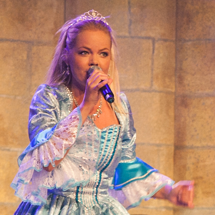 Sita Vermeulen dressed as princess during the Fairy Tale Concert on 12 juni 2011. Not a great picture, but there is currently no photo of Sita at all on her own Wiki page.